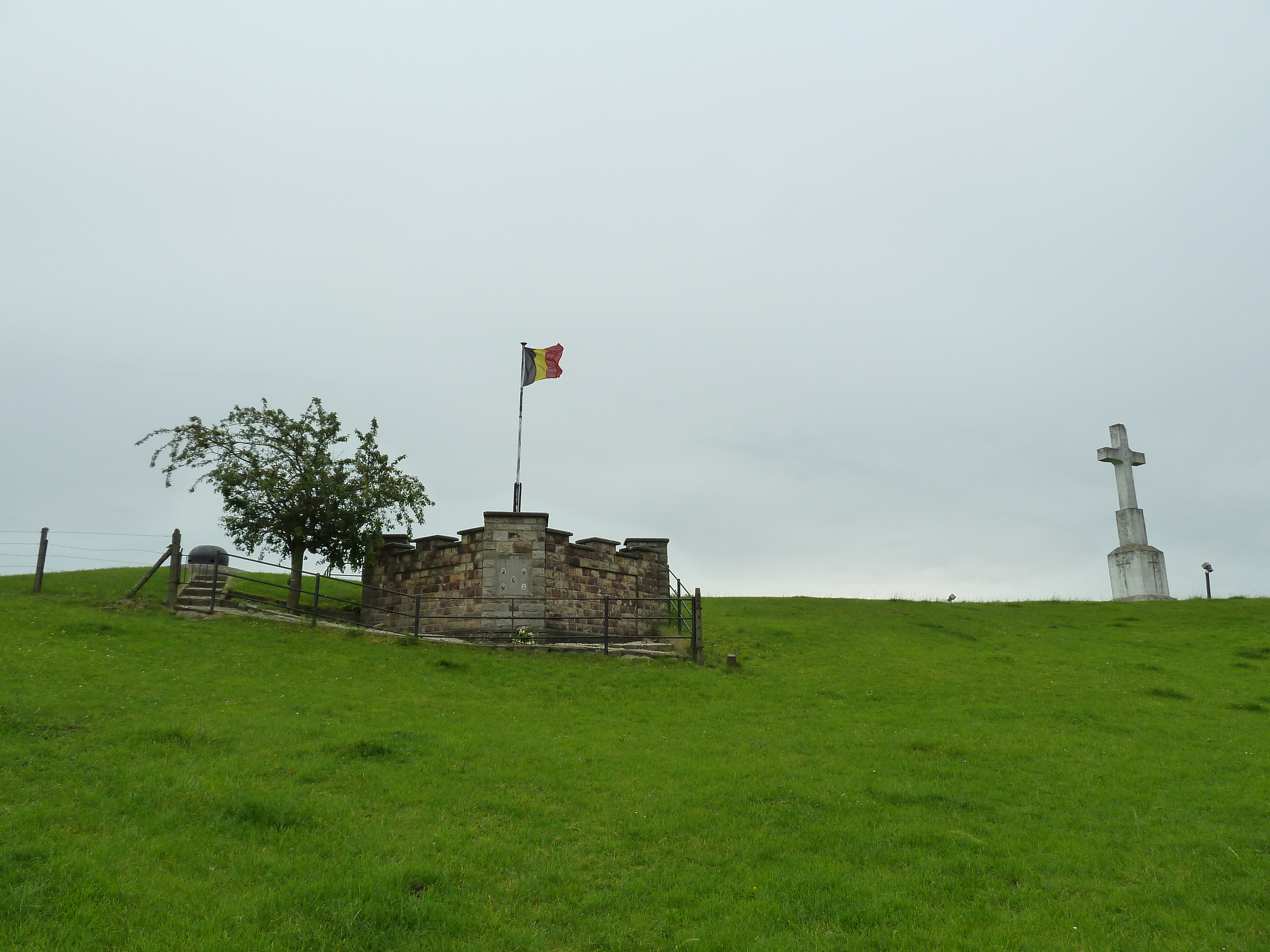 Croix de Charneux, Charneux, Herve, Belgium